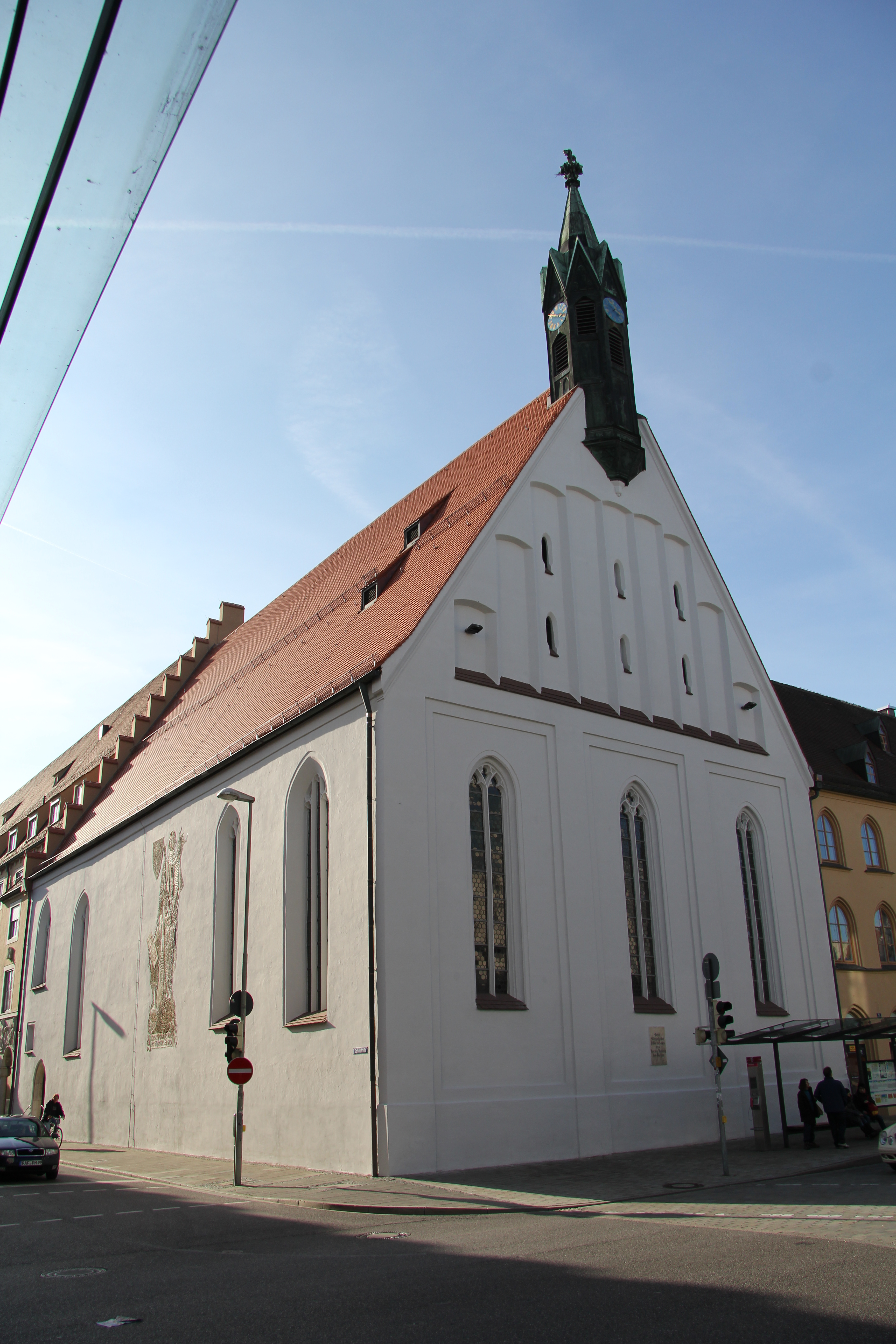 Ingolstadt, Spitalkirche from south